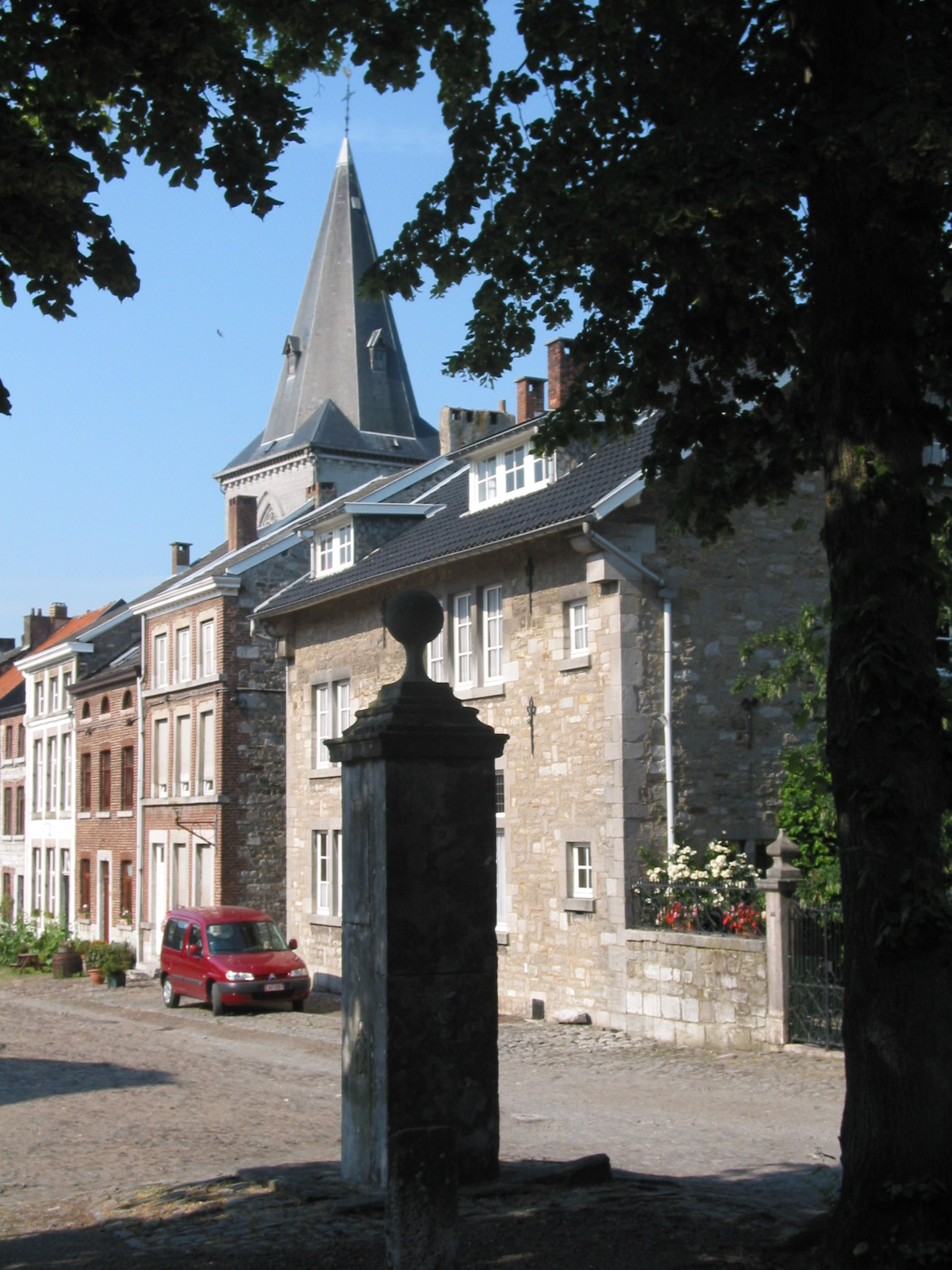 Limbourg (Belgium), the St. Georges place.